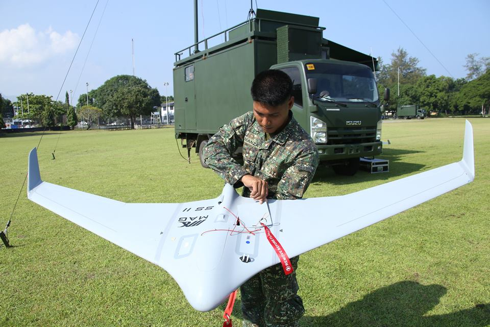 An example of a MAG Super Swiper II UAV used by the Philippine Marine Corps as part of the Marine Forces Imaging & Targeting Support System (MITSS).